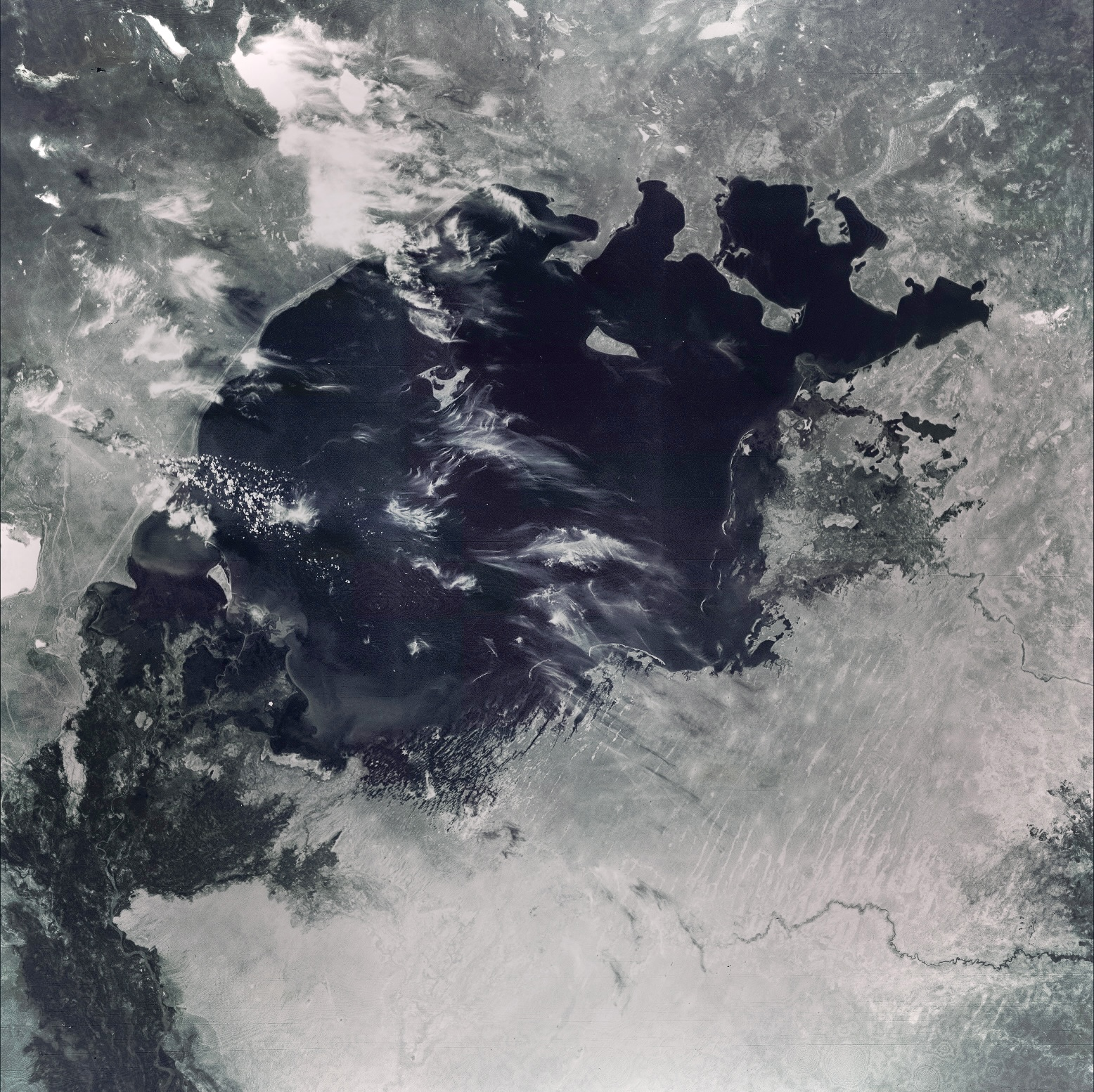 This image of the Aral Sea was acquired in August of 1964 by a United States Argon intelligence mapping/geodesy satellite. KH-5 Mission 9064-A (incorrectly mislabeled 9066-A in the USGS archive) carried the A-22 mapping camera. A TAT-Agena carried this camera into an orbit of 114.96 degrees of inclination with a period of 84 minutes, a perigee of 219 degrees and an apogee of 232 degrees. International Launch Designation: 1964-043A Launch Date: August 21, 1964 Mission Duration: approximately 6 days